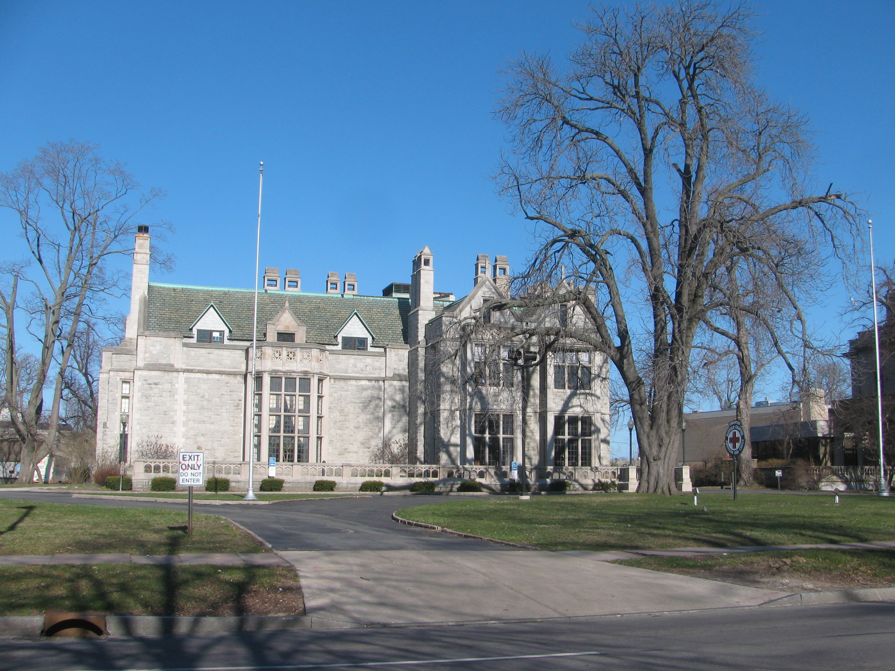 The Greater Buffalo, New York American Red Cross in the Delaware Avenue Historic District (Buffalo, New York)